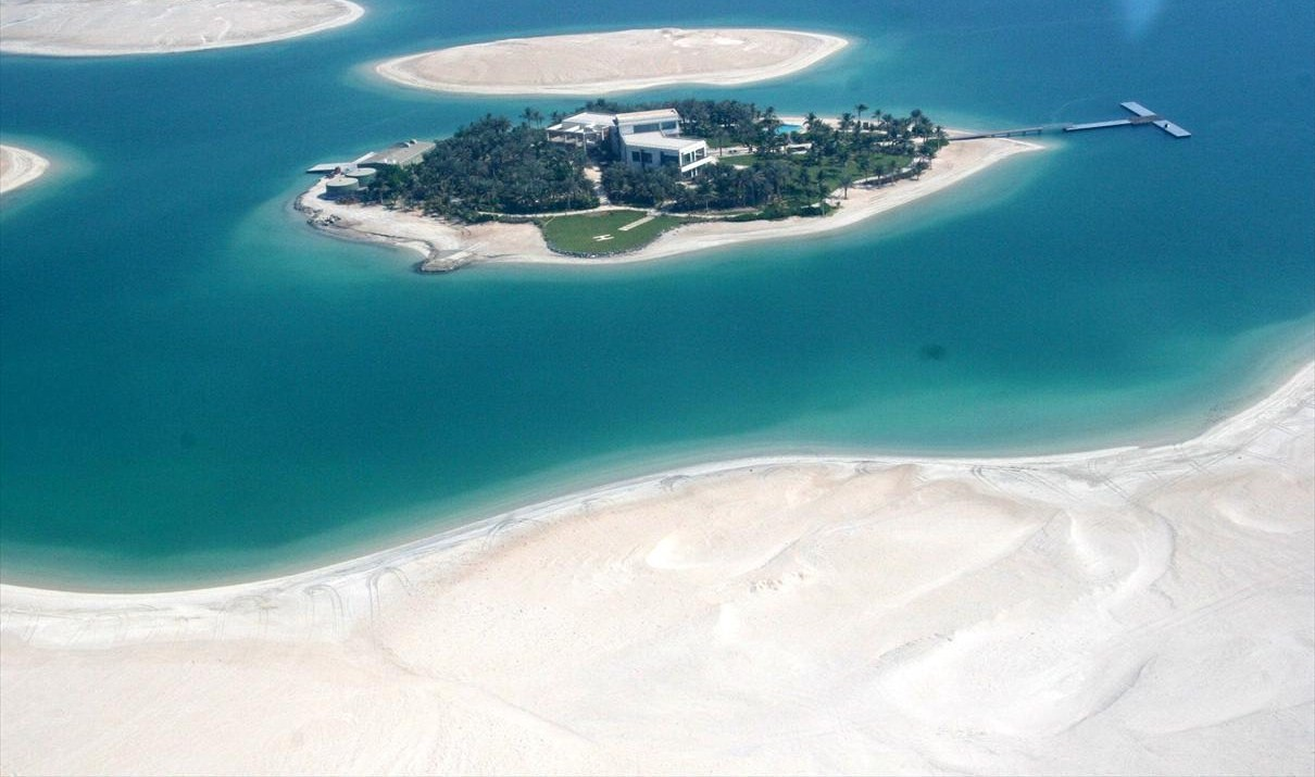 This is a photo showing one of the islands on The World, located in the Arabian Gulf off the coast of Dubai, United Arab Emirates, on 18 October 2007. This is the first island that had a structure on it. The island was used as a model island for prospective buyers. This photo was taken from a helicopter ride courtesy of Nakheel.